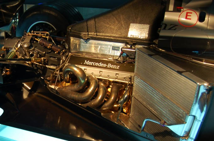 Mercedes-Benz FO110J V10 engine, made by Ilmor, of the McLaren MP4-15 in 2000. The exhaust of the engine has the feature centre layout.